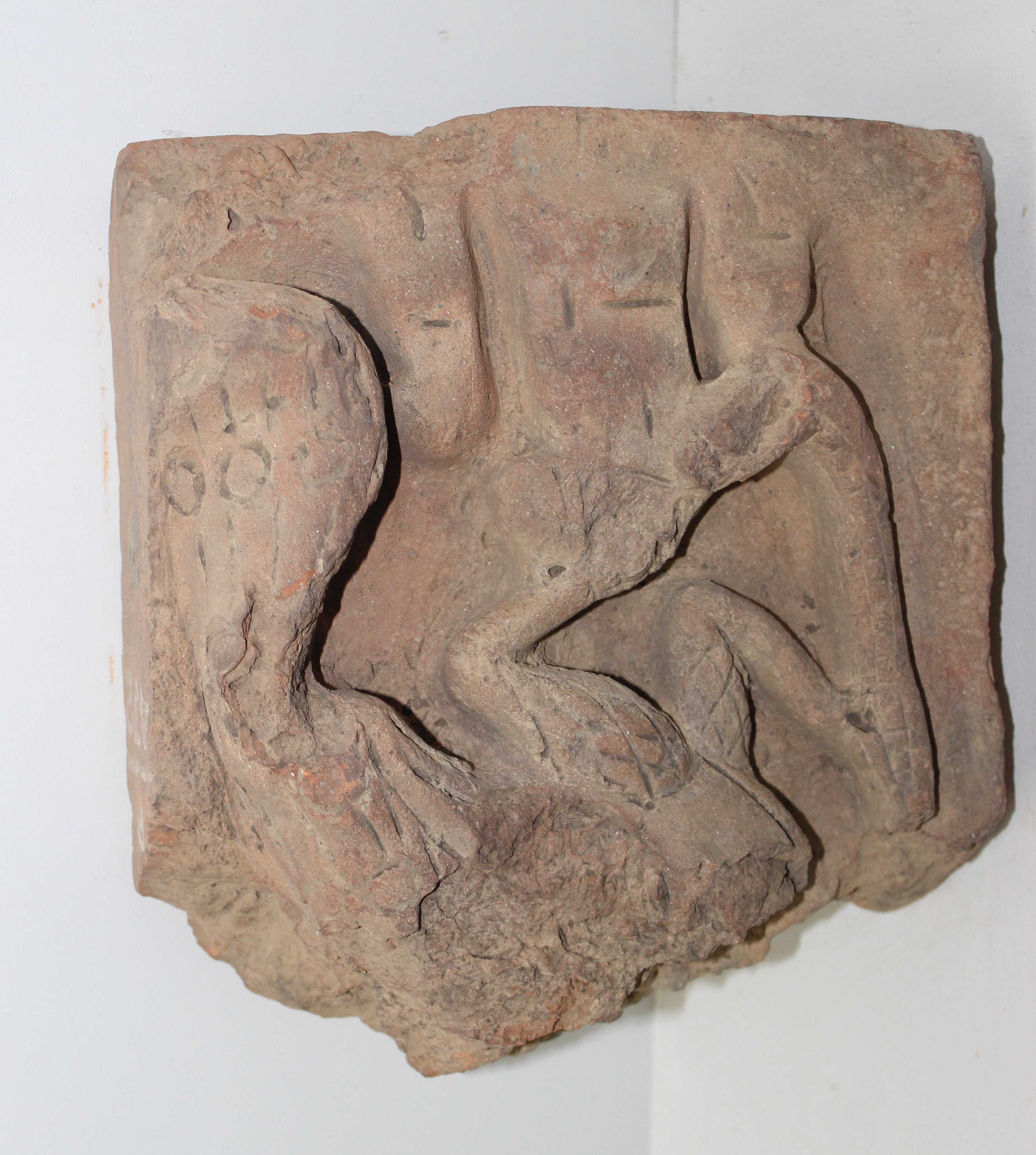 Terracotta images and brics 5th century